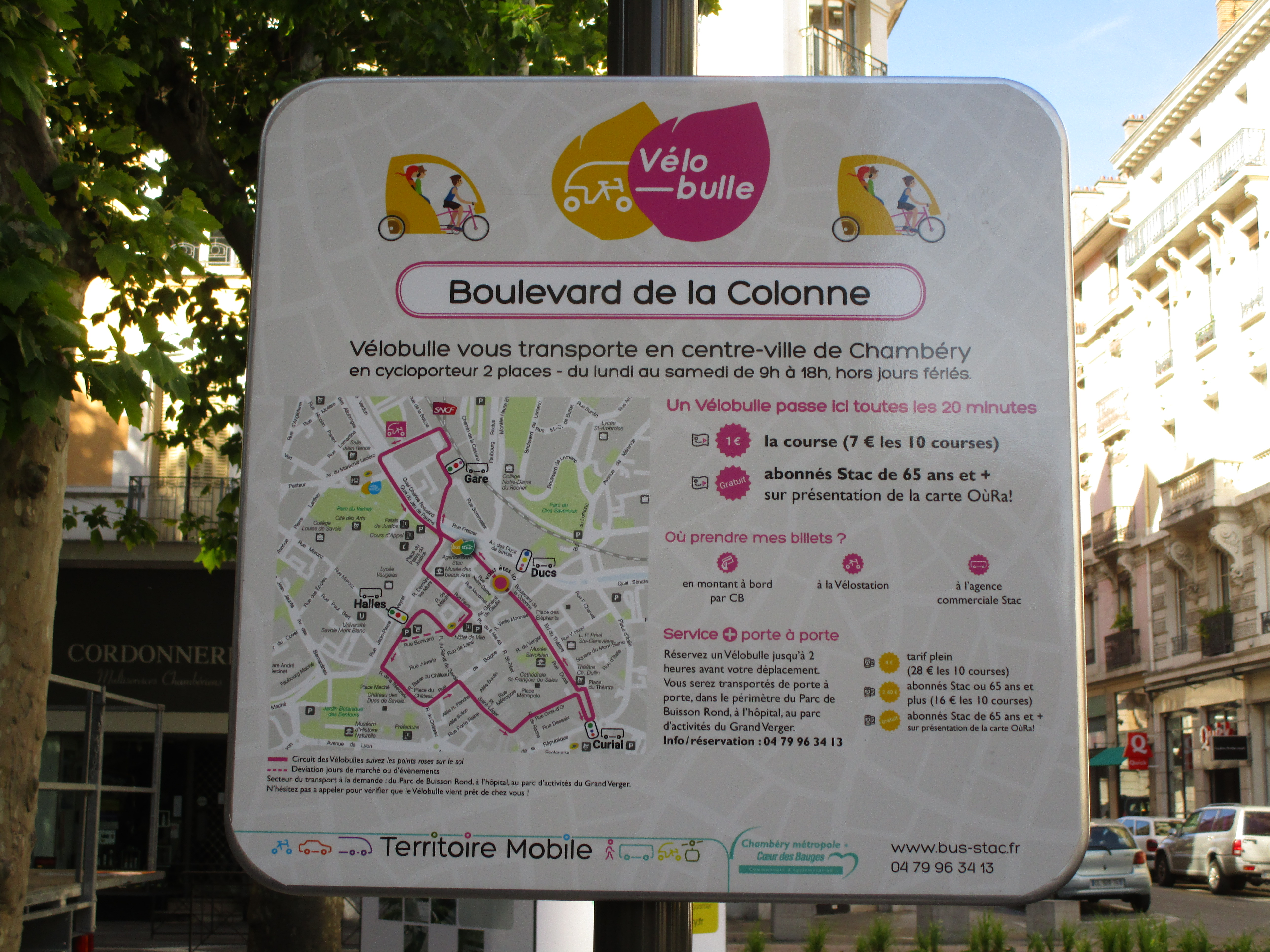 The Vélobulle stop Boulevard de la Colonne — in Chambéry, France — on May 21, 2017